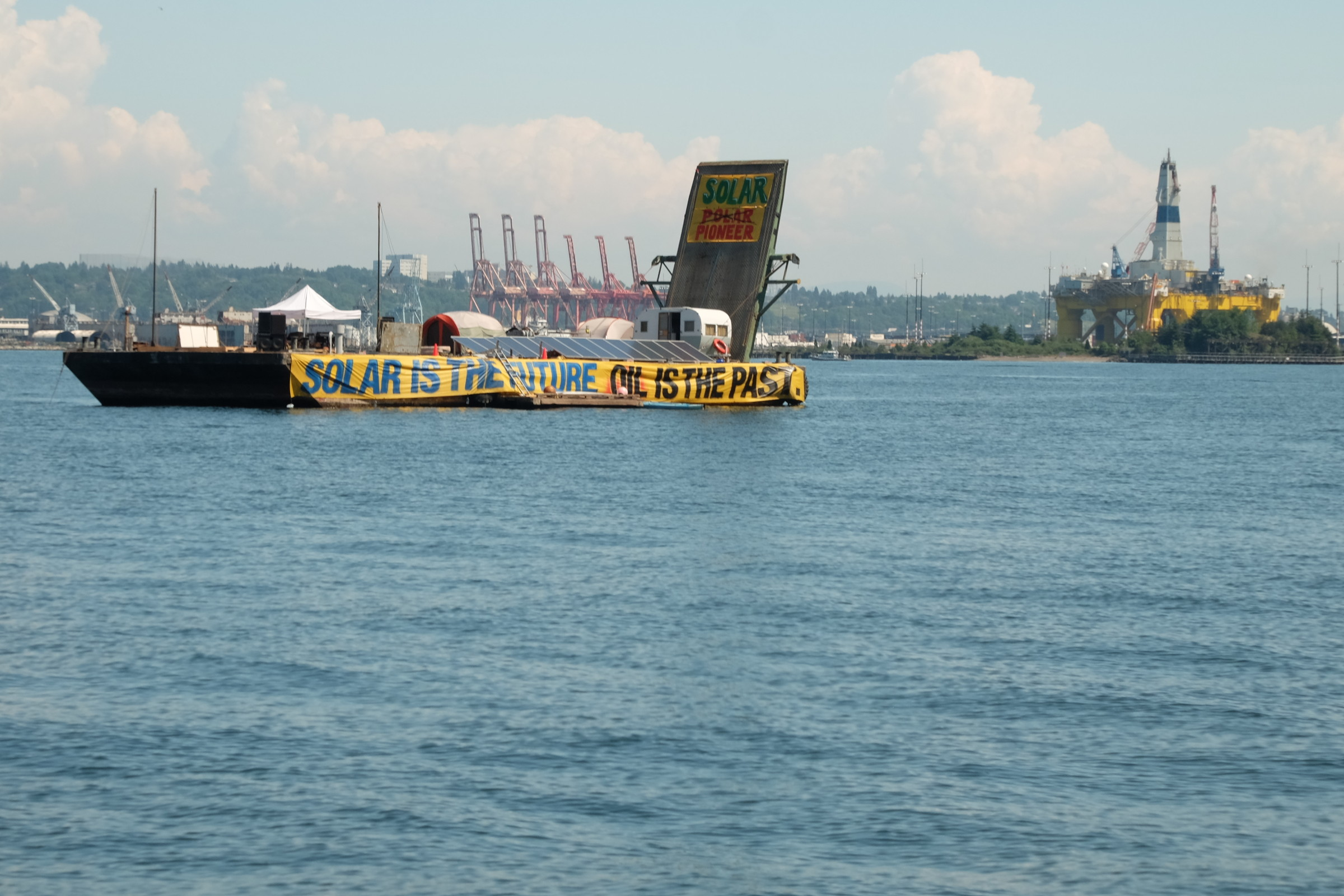 The People's Barge, a protest platform in the Seattle Arctic drilling protests anchored off Alki Point near Seacrest Park in Seattle, Washington. In the background is the Shell Polar Explorer ( IMO number: 8754140), the target of the demonstrations